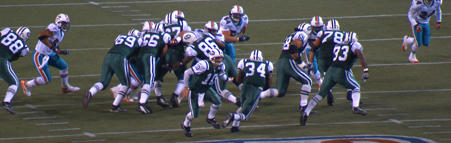 Miami and New York Jets playing in 2004 Original description: "Lamont Jordan rushing like an animal"